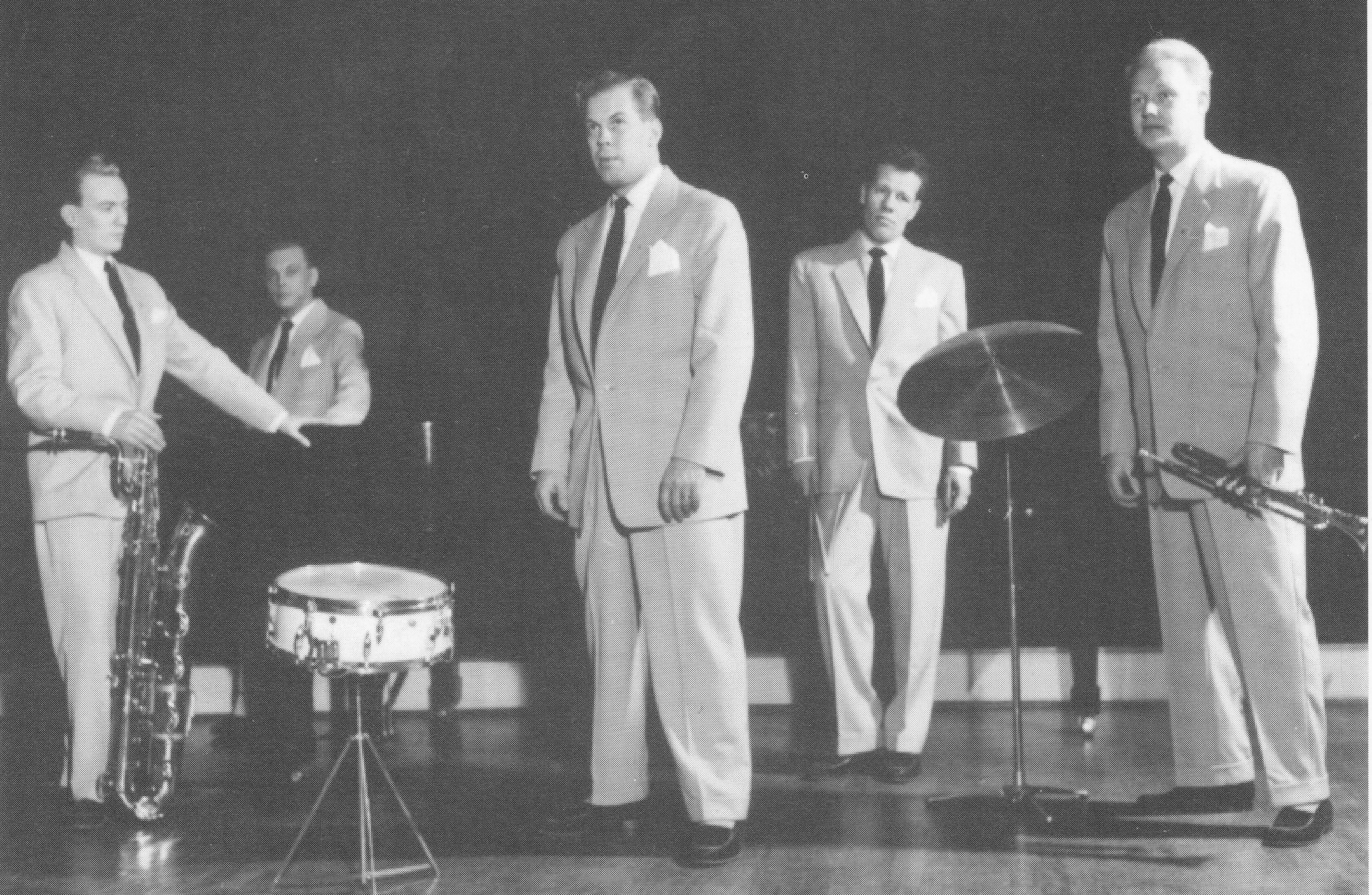 Olli Häme group